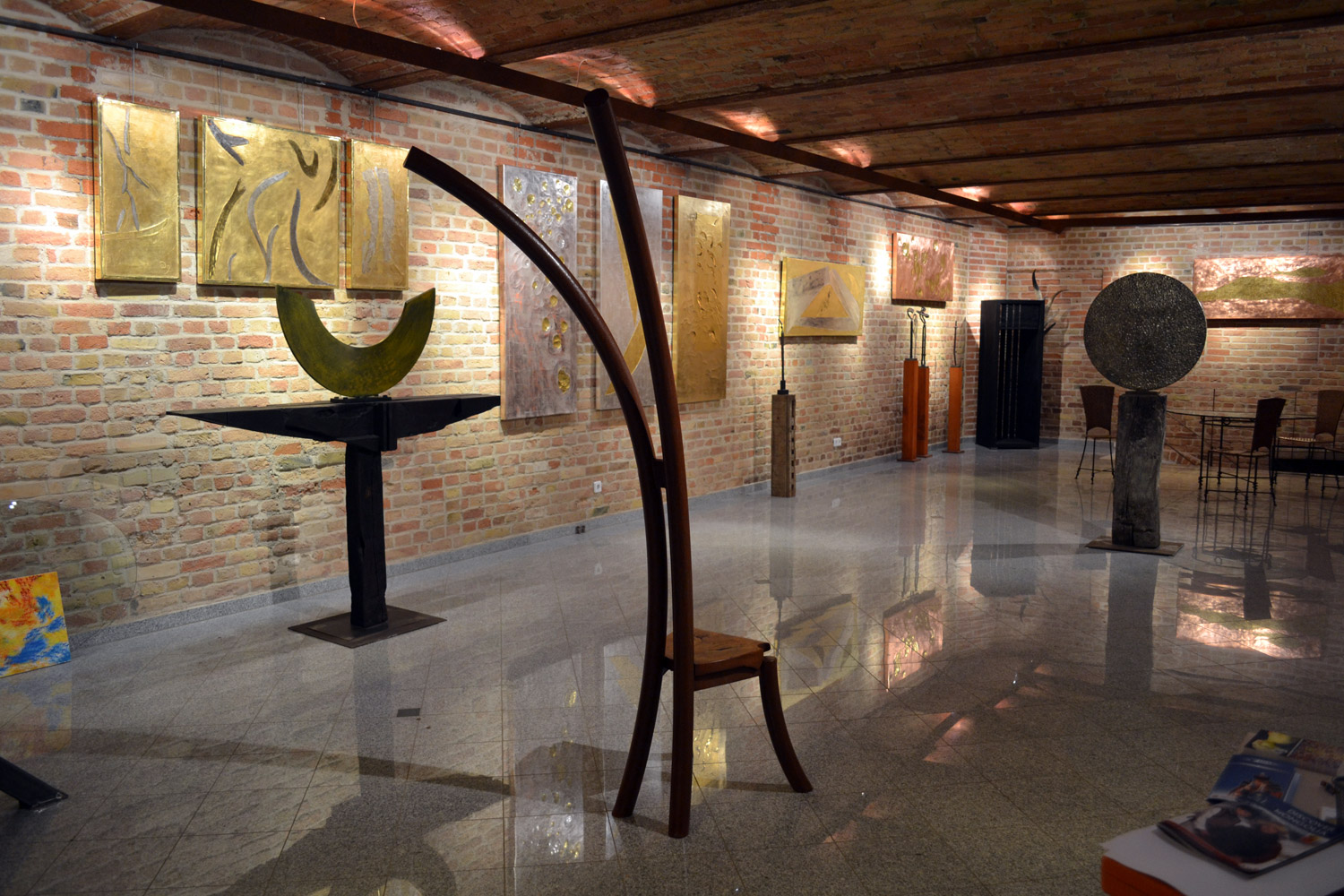 Art Gallery ZURAG Berlin, "DEEP GOLDEN" Exhibition 2011